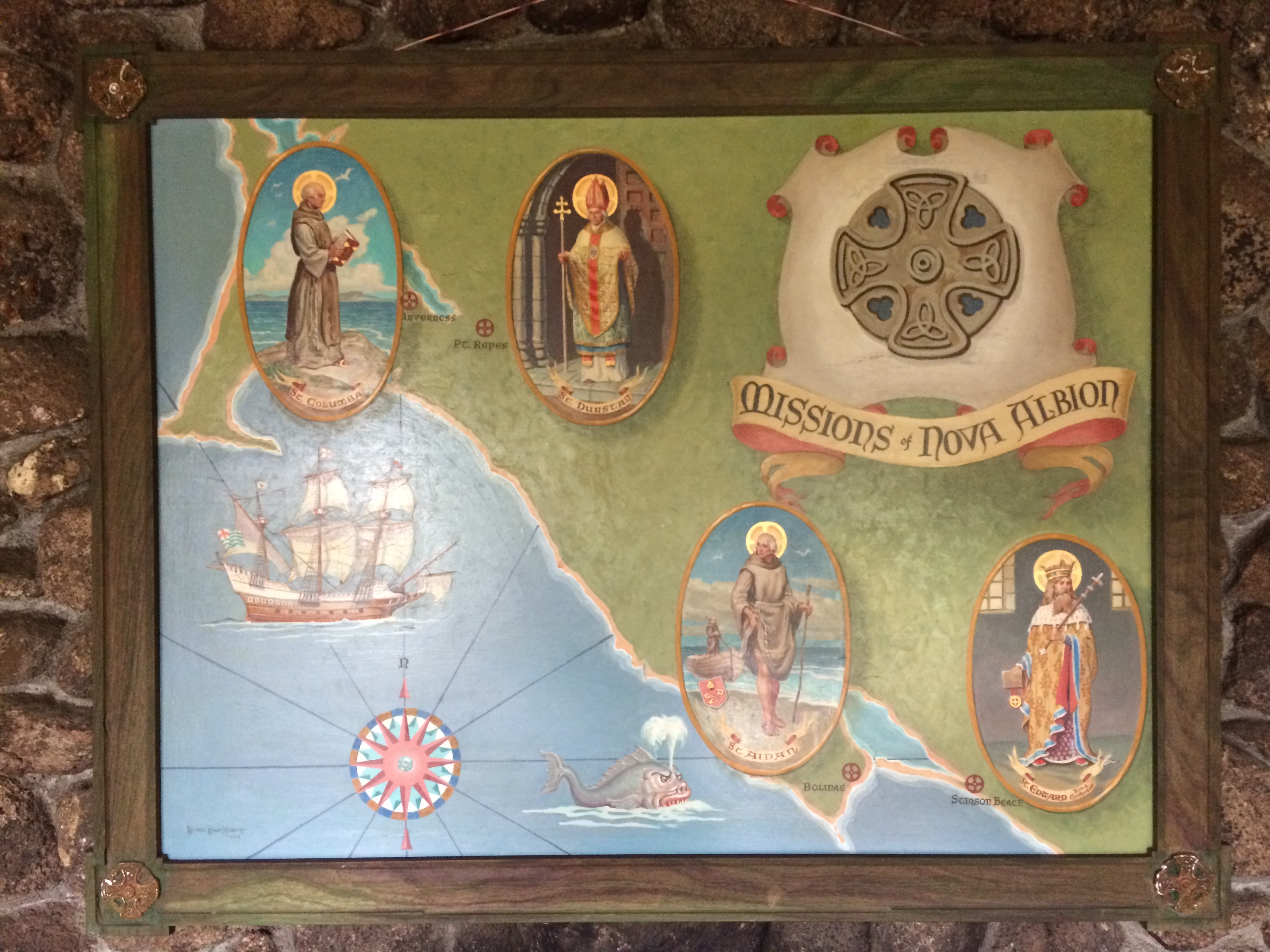 Artwork in Saint Columba's, Inverness, California, showing Episcopal missions at Nova Albion, Francis Drake's 1579 landing at Point Reyes, California. It shows Drake's "Golden Hinde" along the Marin County shore near Drakes Bay at Point Reyes in California.